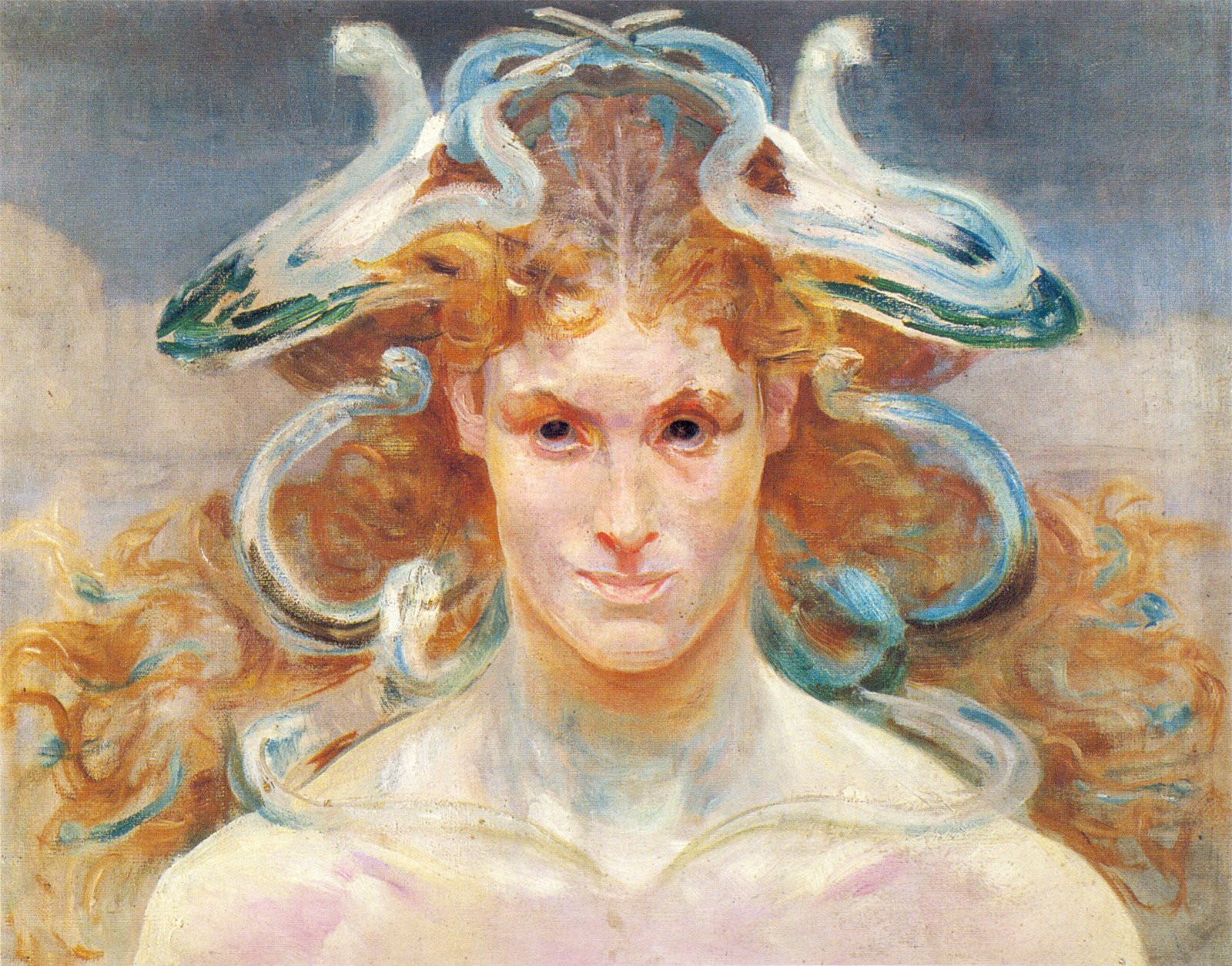 Medusa